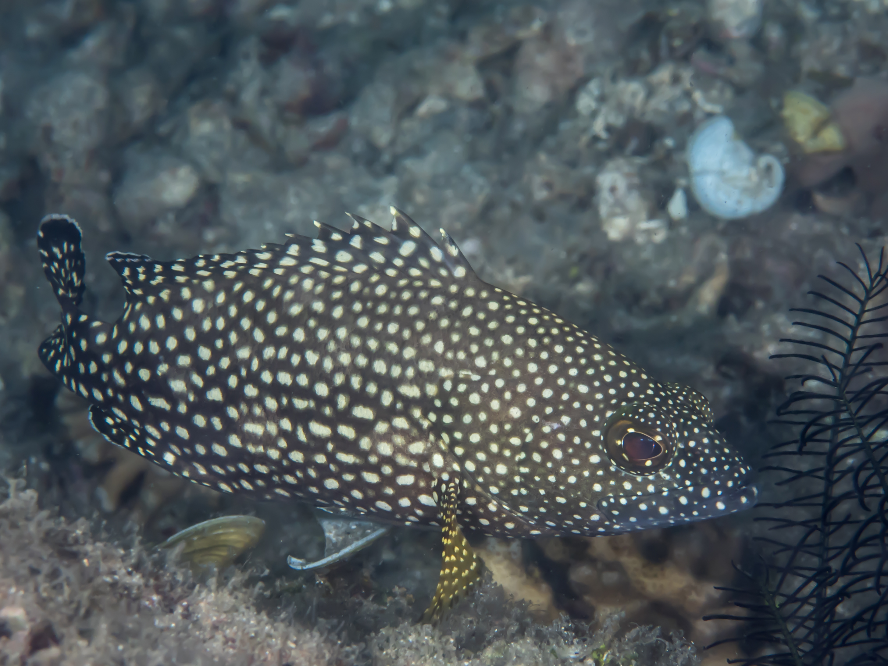 Lembeh, Indonesia - White-streaked grouper (Epinephelus ongus)